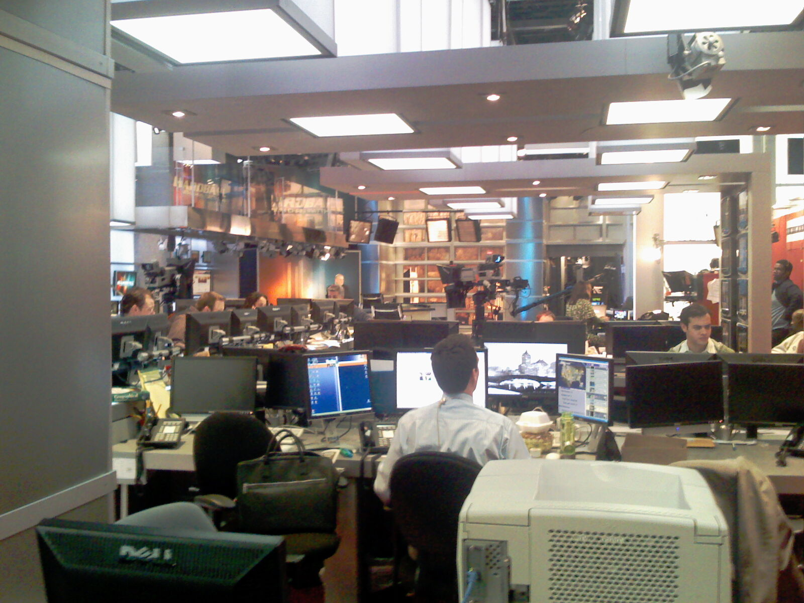 MSNBC NYC HQ Studio